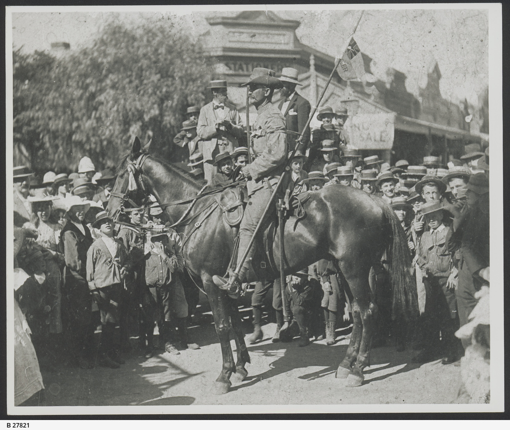 Lieutenant Samuel Dyke of the South Australian Garrison Artillery riding "Bugler" raising funds for South Australia's 3rd Contingent (Bushmen) to the South African War. The tour lasted from February to March 1900 and raised 2,500 Pounds.